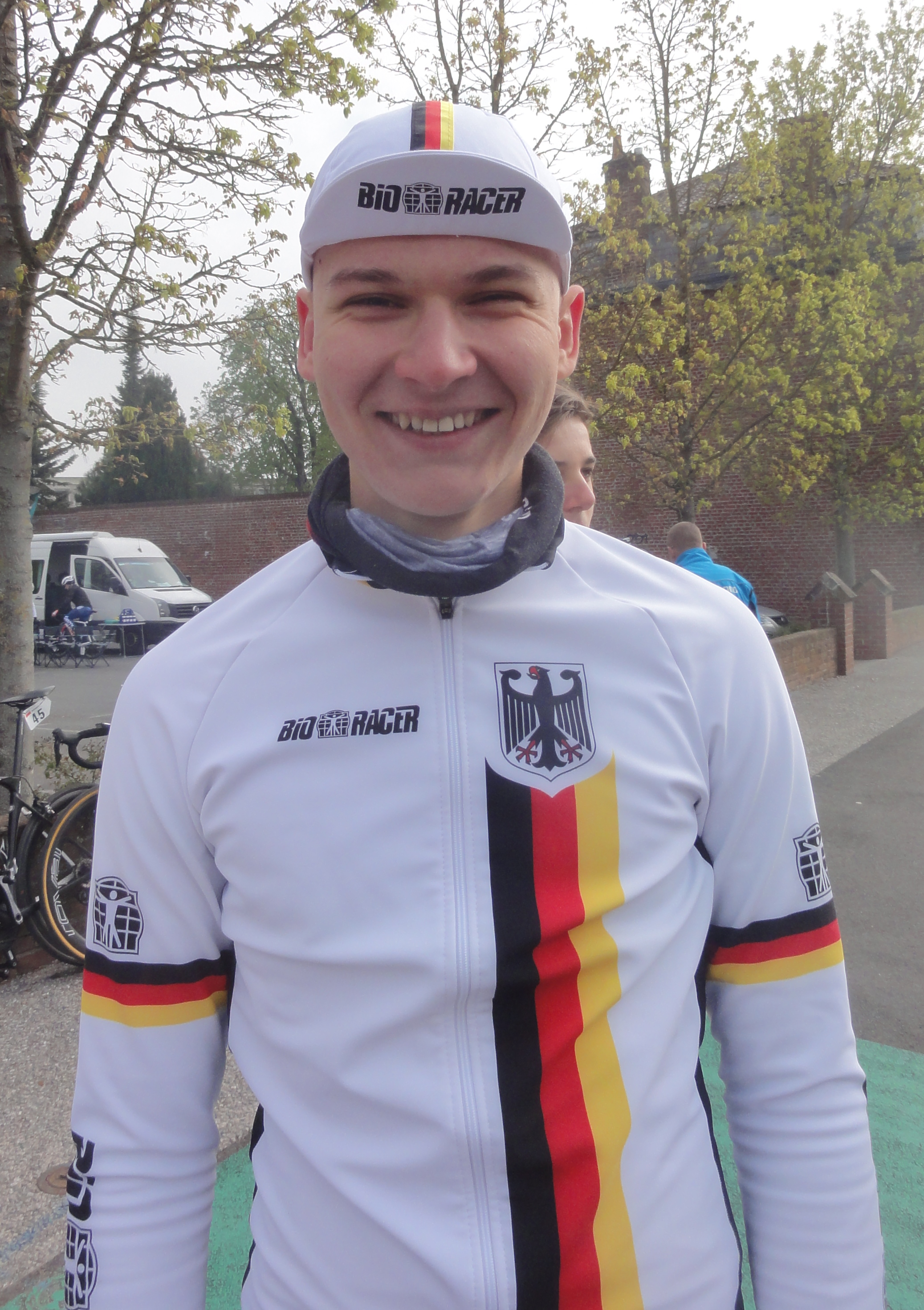 Depicted place: Saint-Amand-les-Eaux